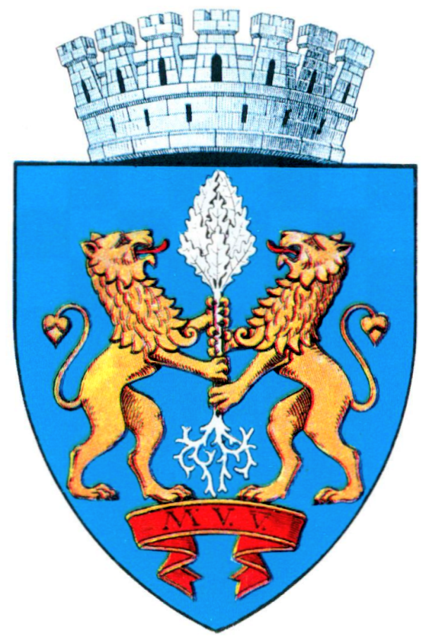 Ploieşti.